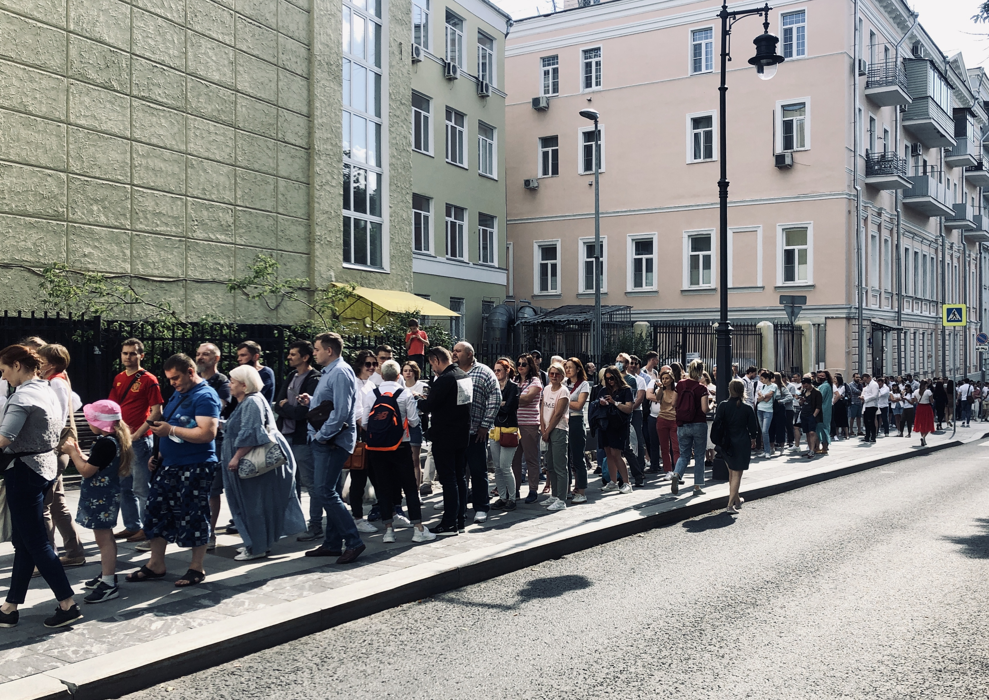 Belarussian citizens are staying in the line to give their vote at the embassy of Belarus In Russia, Moscow (2020-08-09)